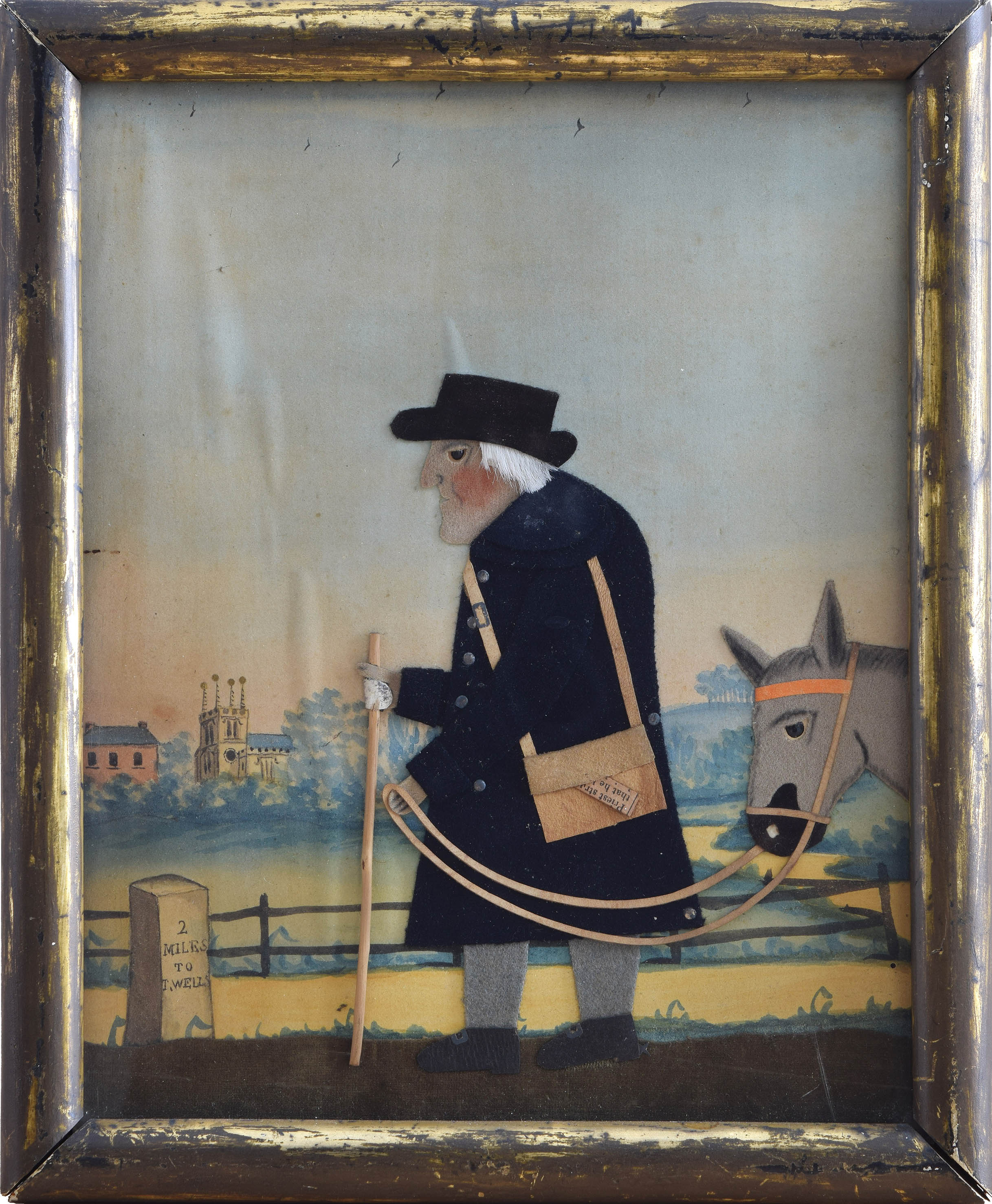 "Old Bright, The Postman" by George Smart, c.1830s; Courtesy Tunbridge Wells Museum, © Jonathan Christie